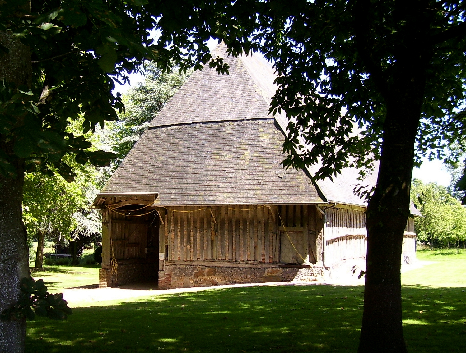 The barn of the fief la Fortière in Épreville-en-Lieuvin (Eure, France) was built in the 16th century.